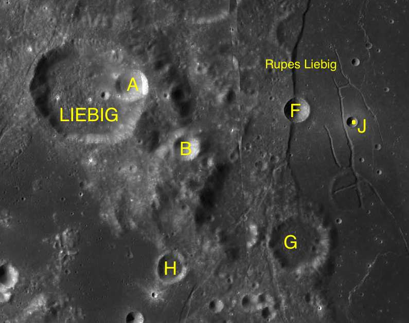 Part of the chart LAC-93 used for the presentation